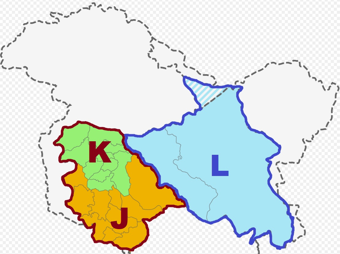 J-K and L, Indian Union Territories in 2019